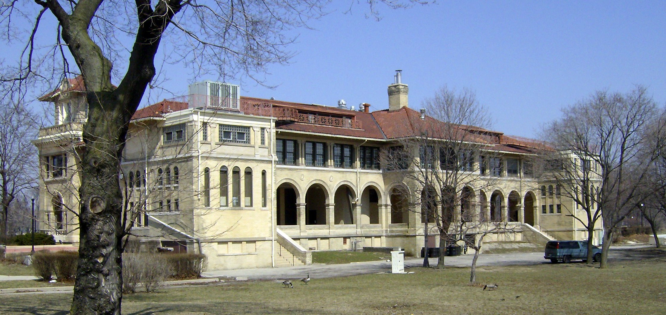 Casino building in Belle Isle Park, Detroit, Michigan, United States.